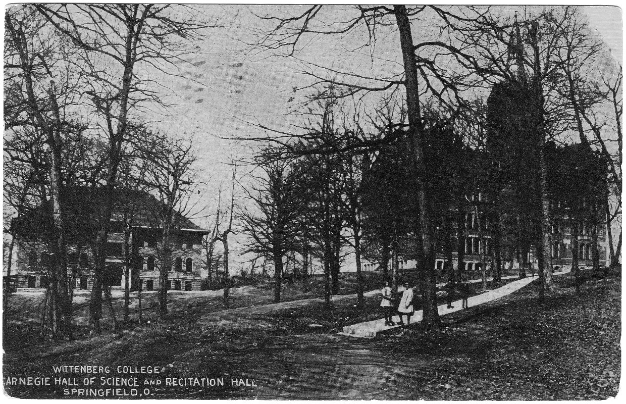 Wittenberg College, Carnegie Hall of Science and Recitation Hall, Springfield, Ohio (1911 Postcard)